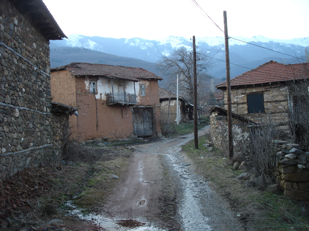 village of Strovija in Dolneni Municipality, near Prilep, Macedonia